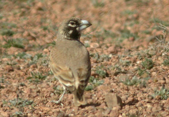 Thick-billed Lark, Tagdilt trail, Morocco, 16th March 2004